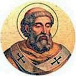 A portrait of Pope Gregory III